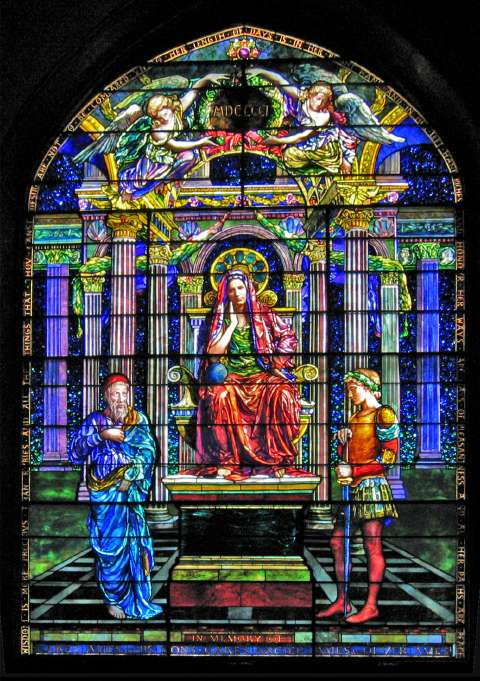 "Figure of Wisdom," stained glass window in Unity Church, North Easton, MA. Copyright ©2005 by Daniel P. B. Smith and released under the terms of the GNU Free Documentation license. The work of art shown is a 1901 work by John LaFarge (1835-1910). Restored by "Victor Rothman for Stained Glass Inc" of Yonkers, New York in 1996.